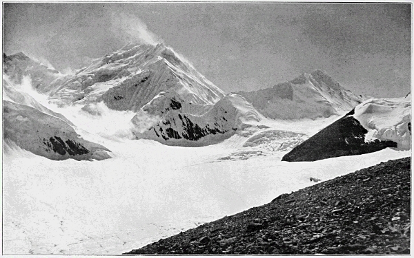 Mount Everest from the 20,000 foot camp — wind blowing snow off the mountain.